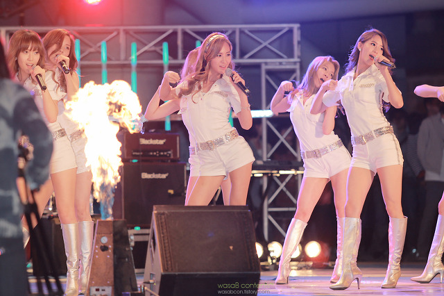 Girls' Generation at Hanyang University Festival.